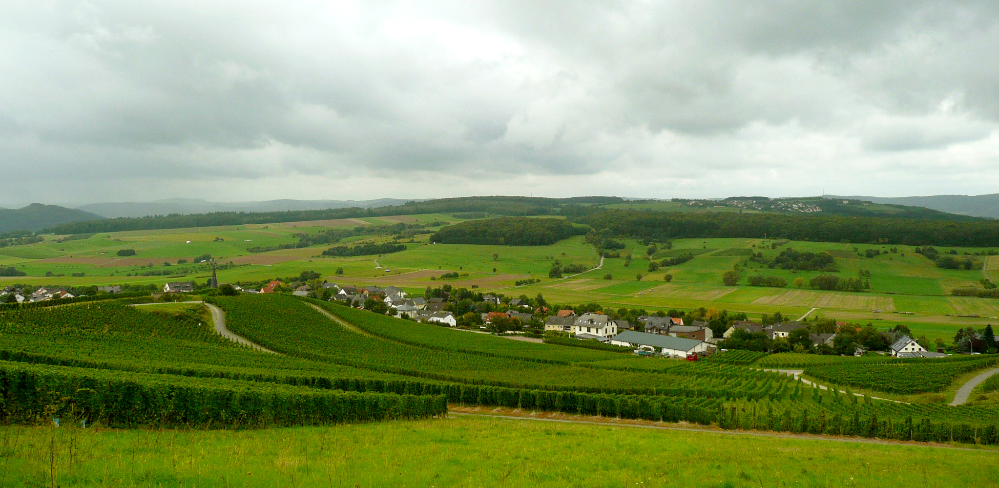 The vineyards in Krettnach, near Konz